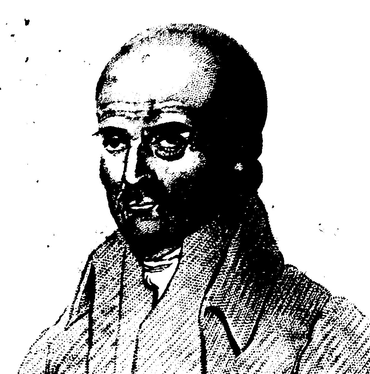 Contemporary illustration of John Kent from his 'Original Gospel Hymns and Poems', 1853 publication, cropped from the Google Books scan.